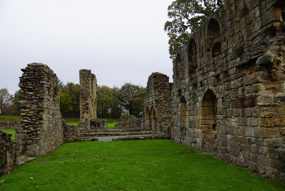 Basingwerk Abbey, Wales.From within novices lodgings looking north.